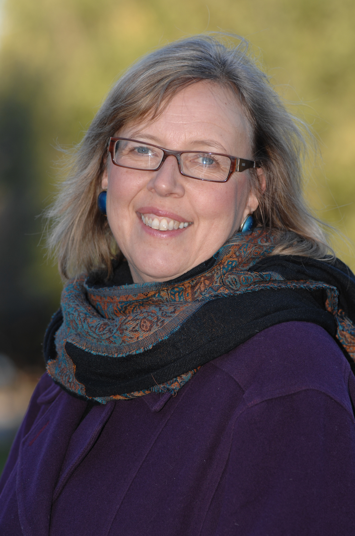 Promotional photo of Elizabeth May, leader of the Green Party of Canada.